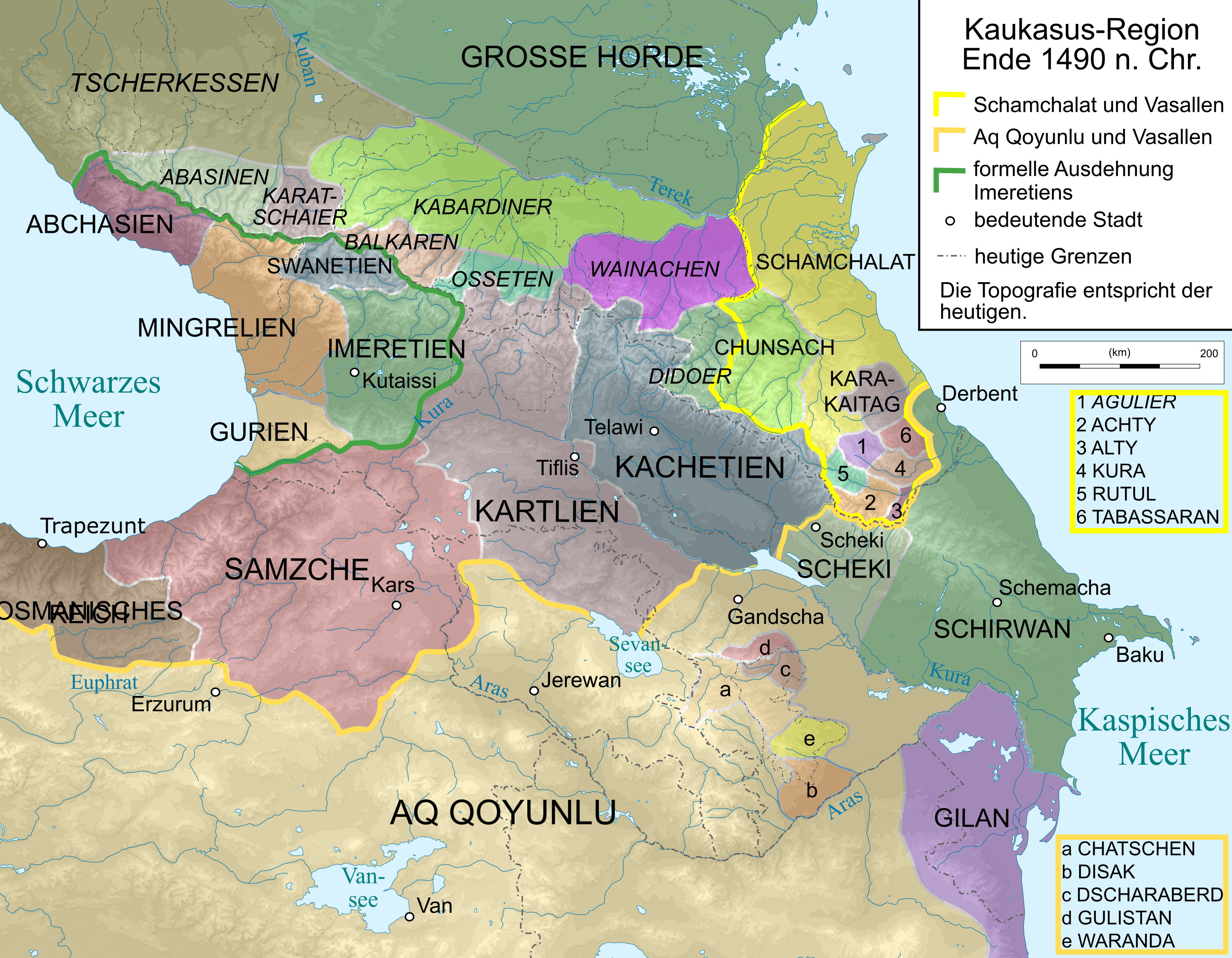 Map of Caucasus Region 1460 in German.